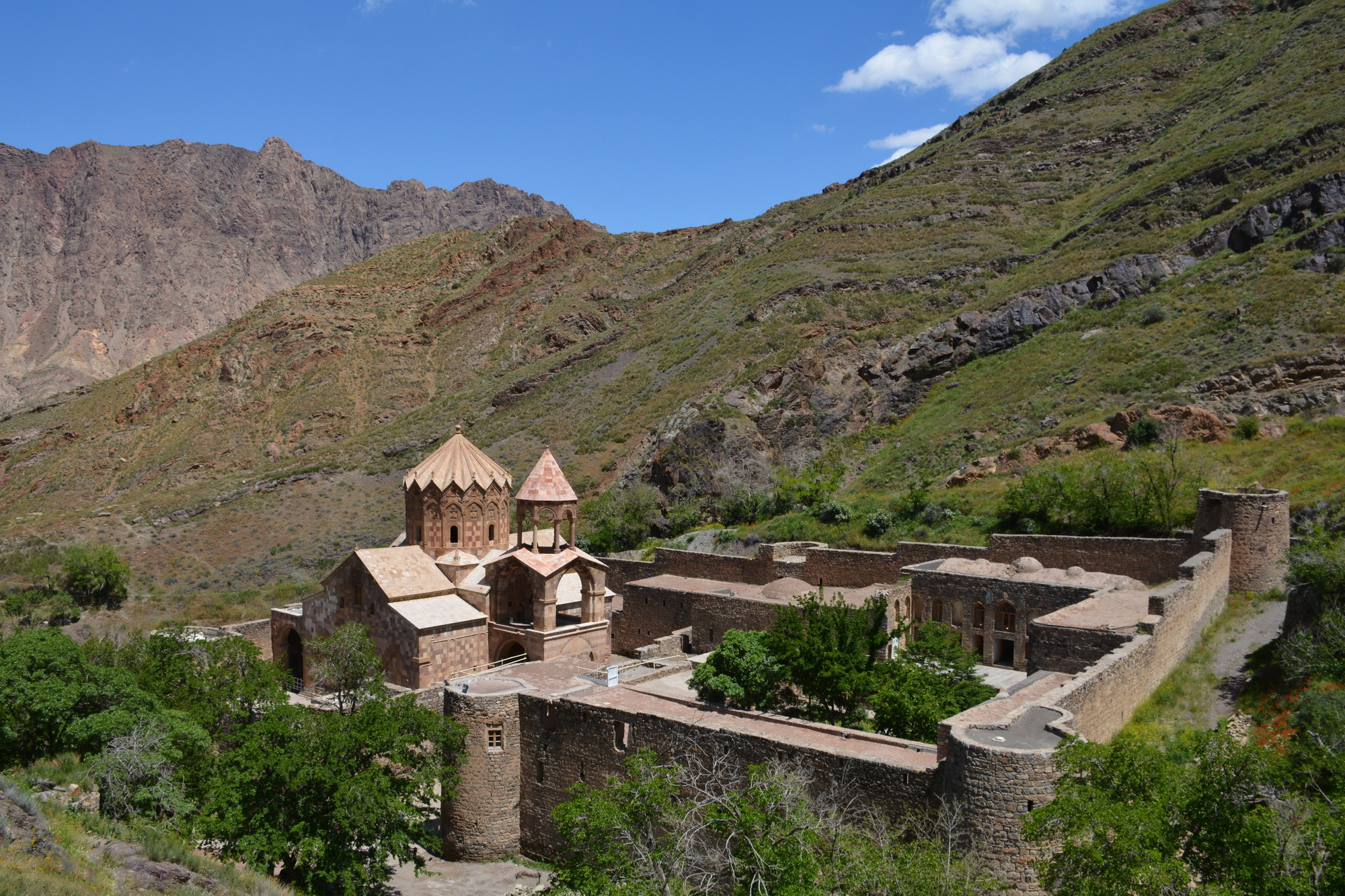 Aras - Jolfa - St. Stepanos Monastery